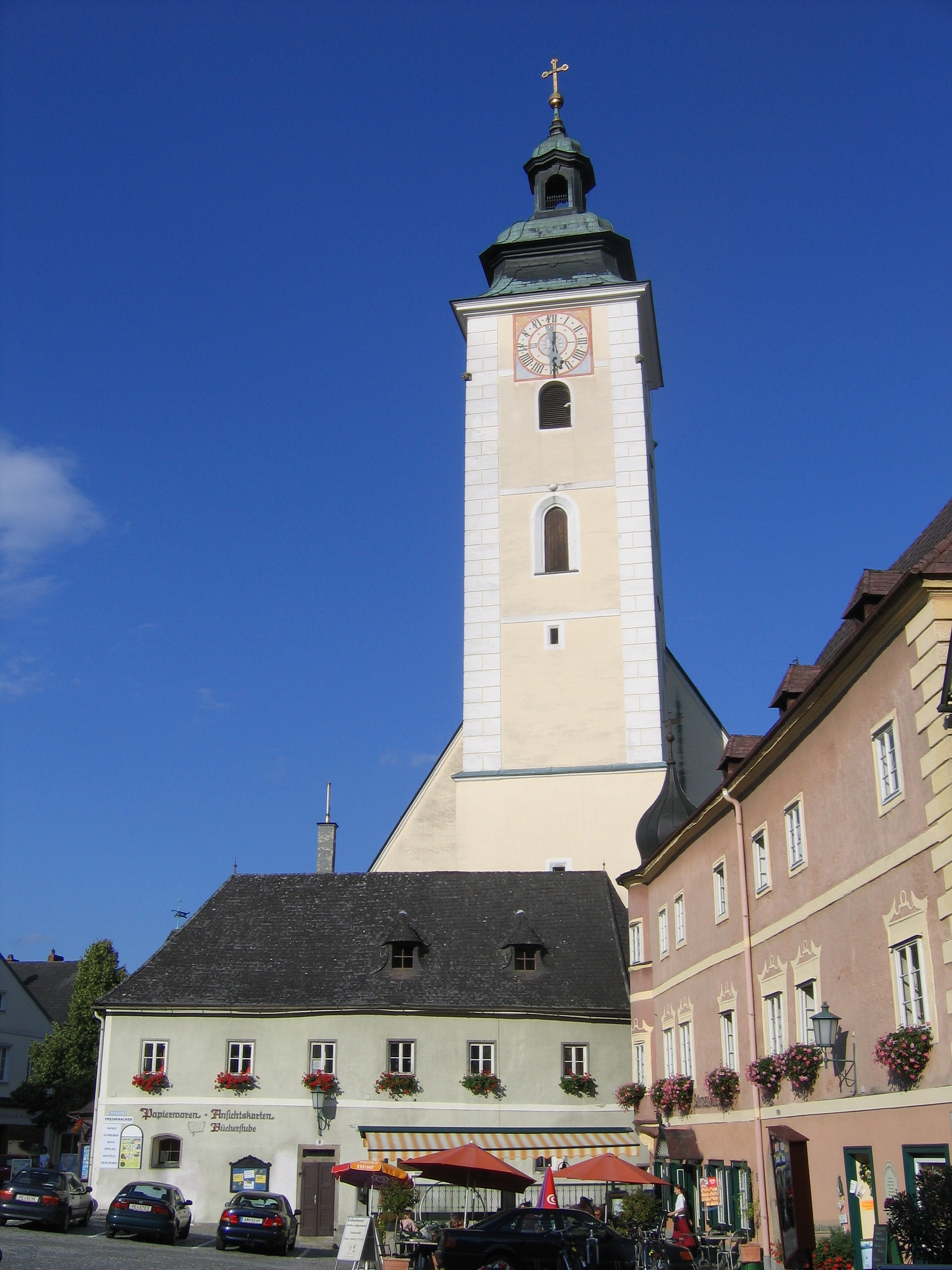 Grein, Austria, market place and church of St. Aegidius